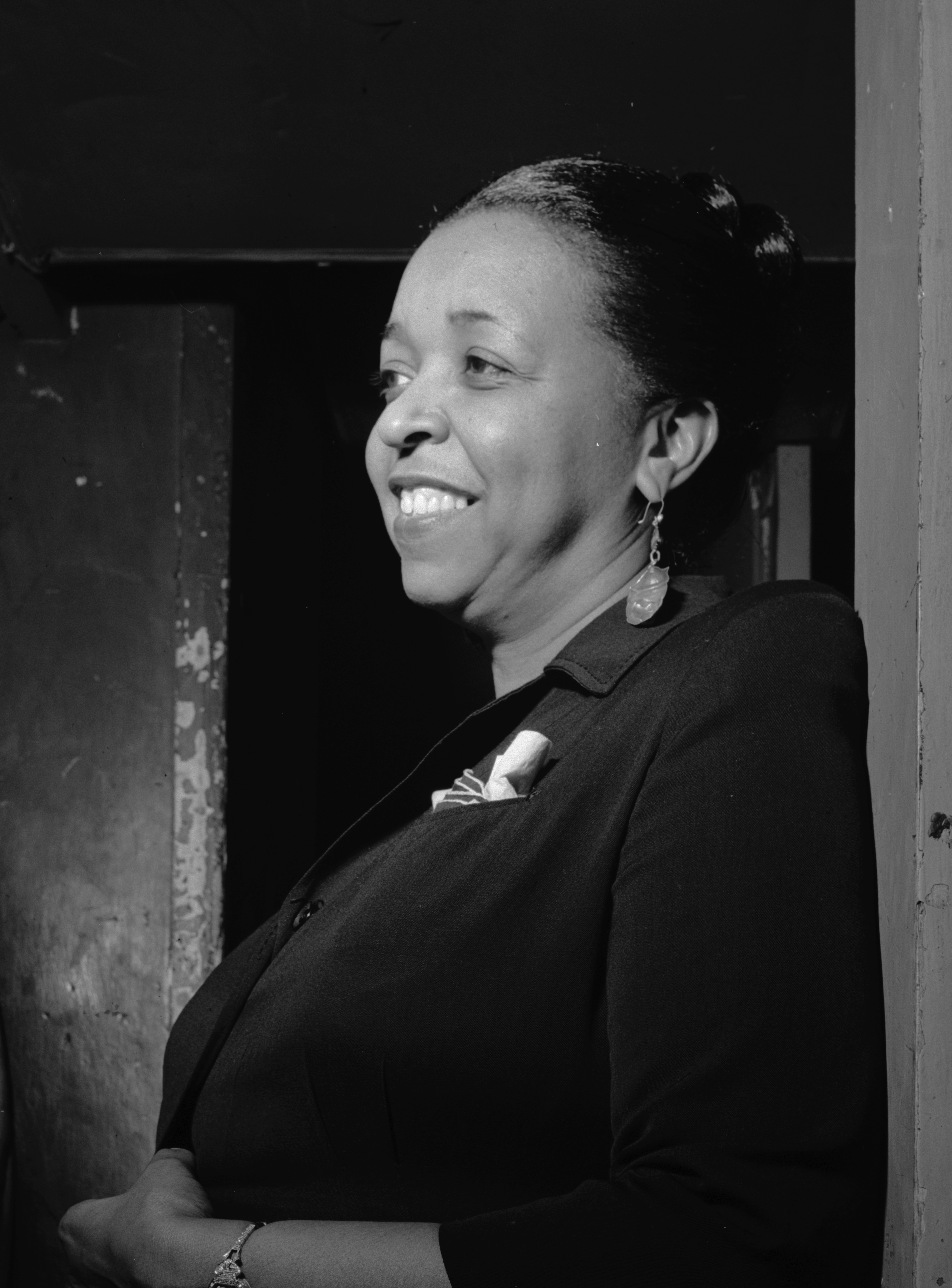 Ethel Waters